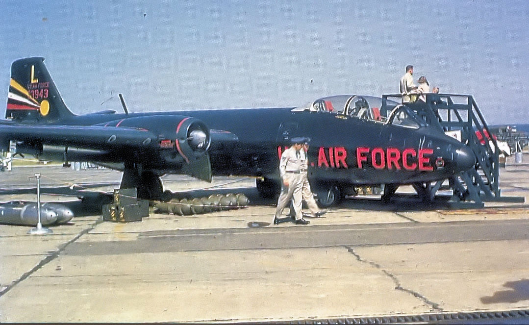 461st Bombardment Wing Martin B-57B-MA 53-3934 1956 (Photo taken at Andrews AFB, MD)